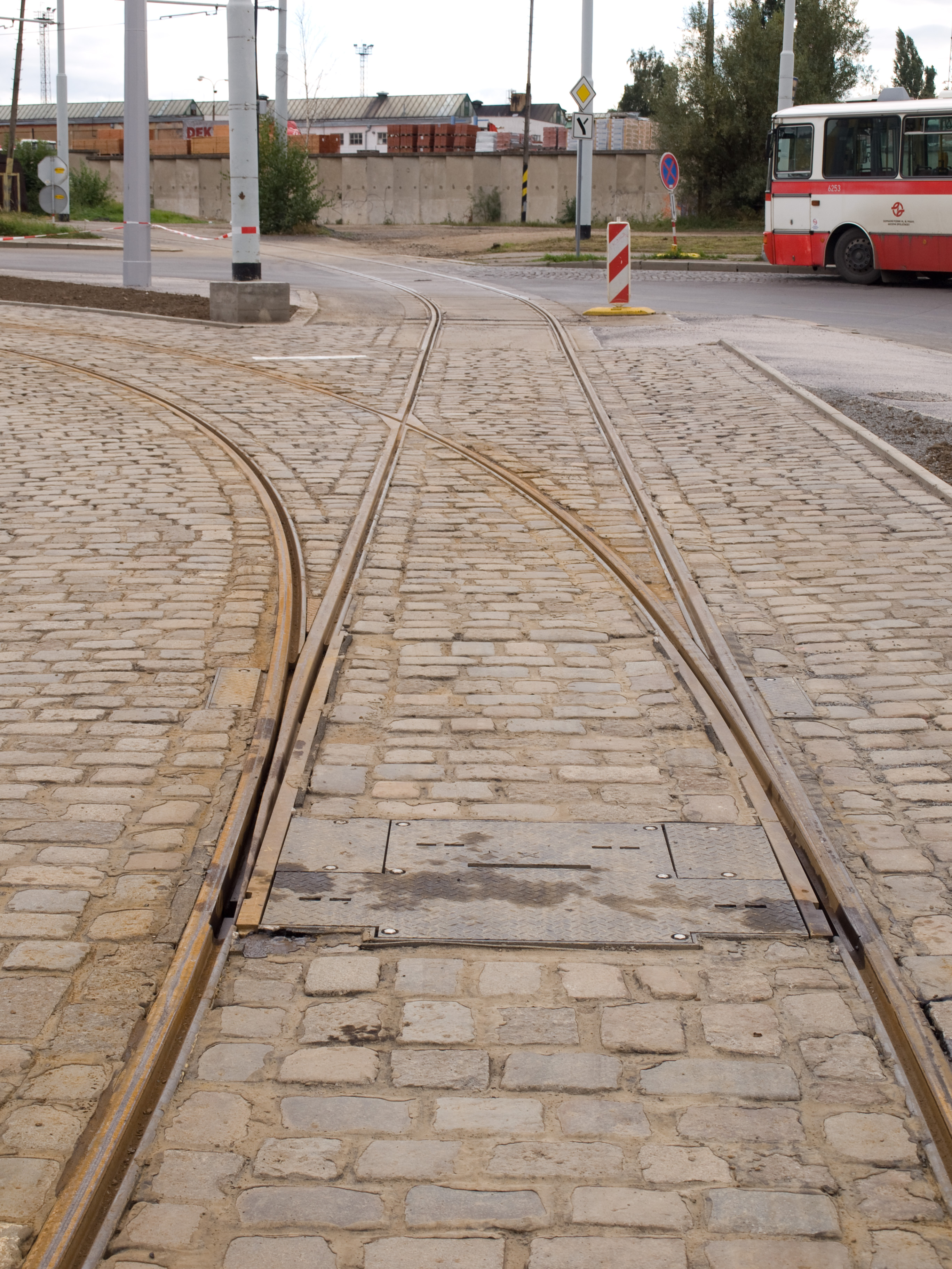 Tram loop Sídliště Řepy